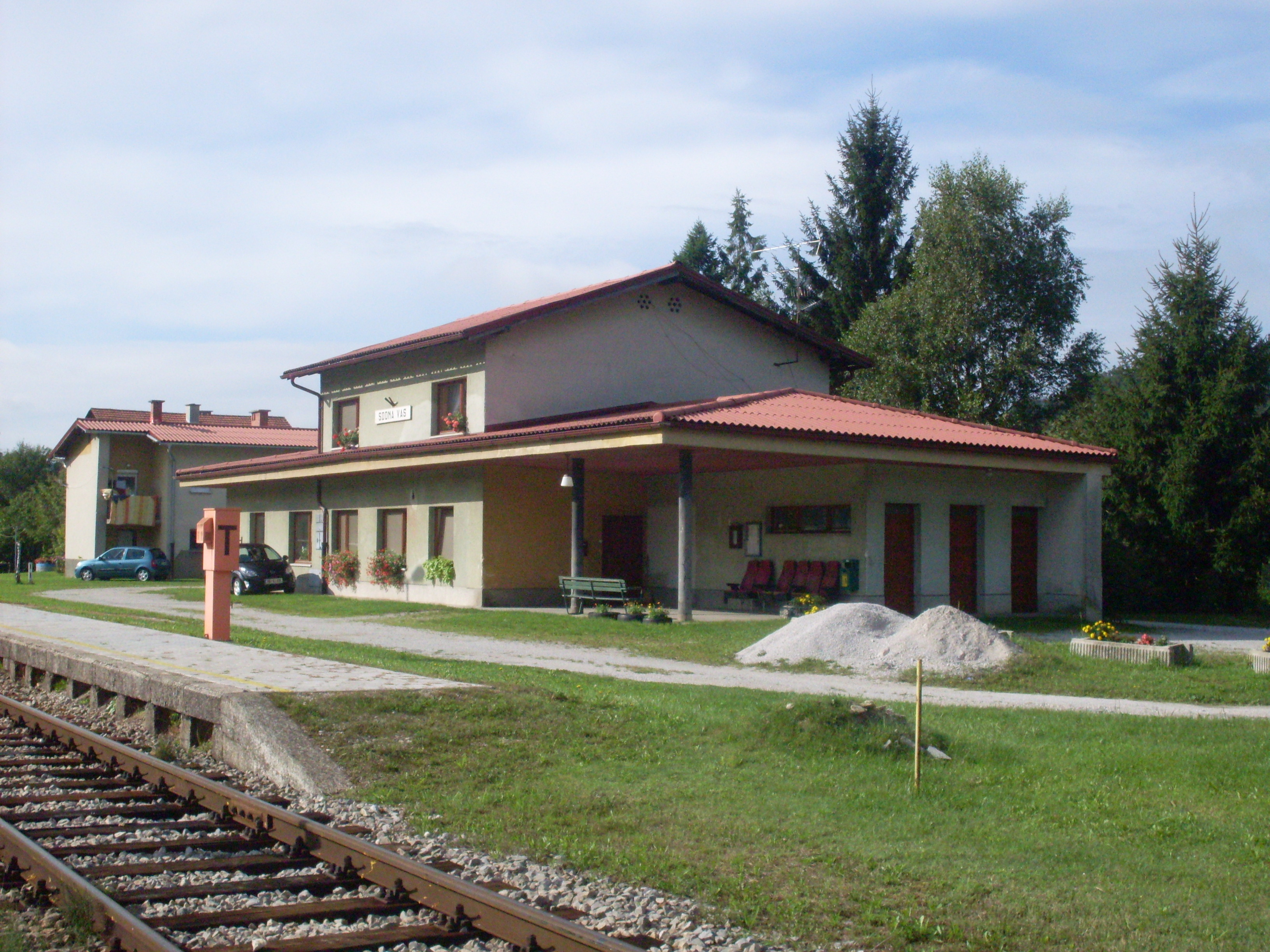 Railway halt Sodna vas, actually located in nearby Marčja vasSlovenščina: Železniško postajališče Sodna vas, ki se pravzapeav nahaja v bližnji Marčji vasi